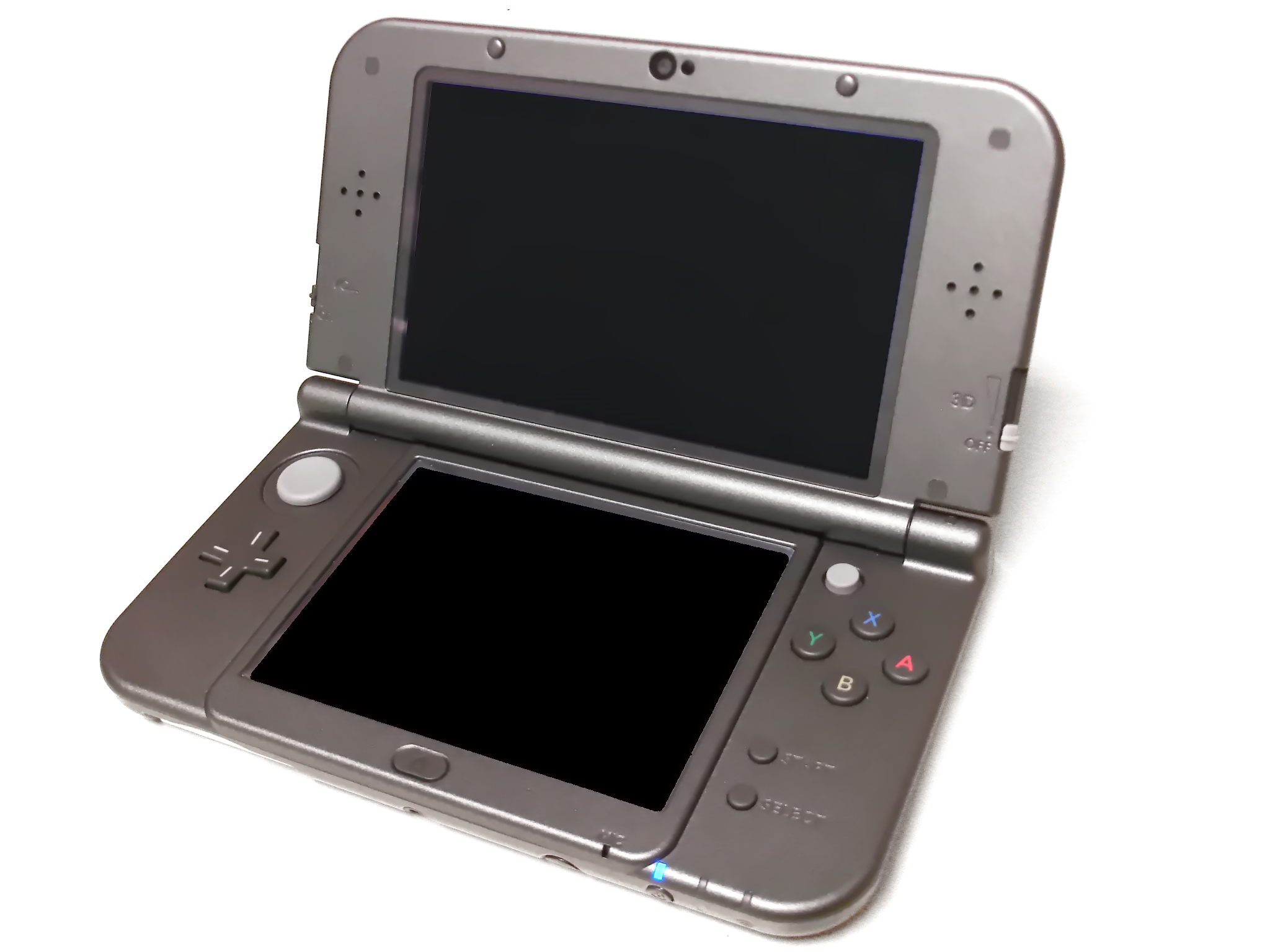 Photo of a Nintendo 3DS XL, transparent and fixed version of this file.